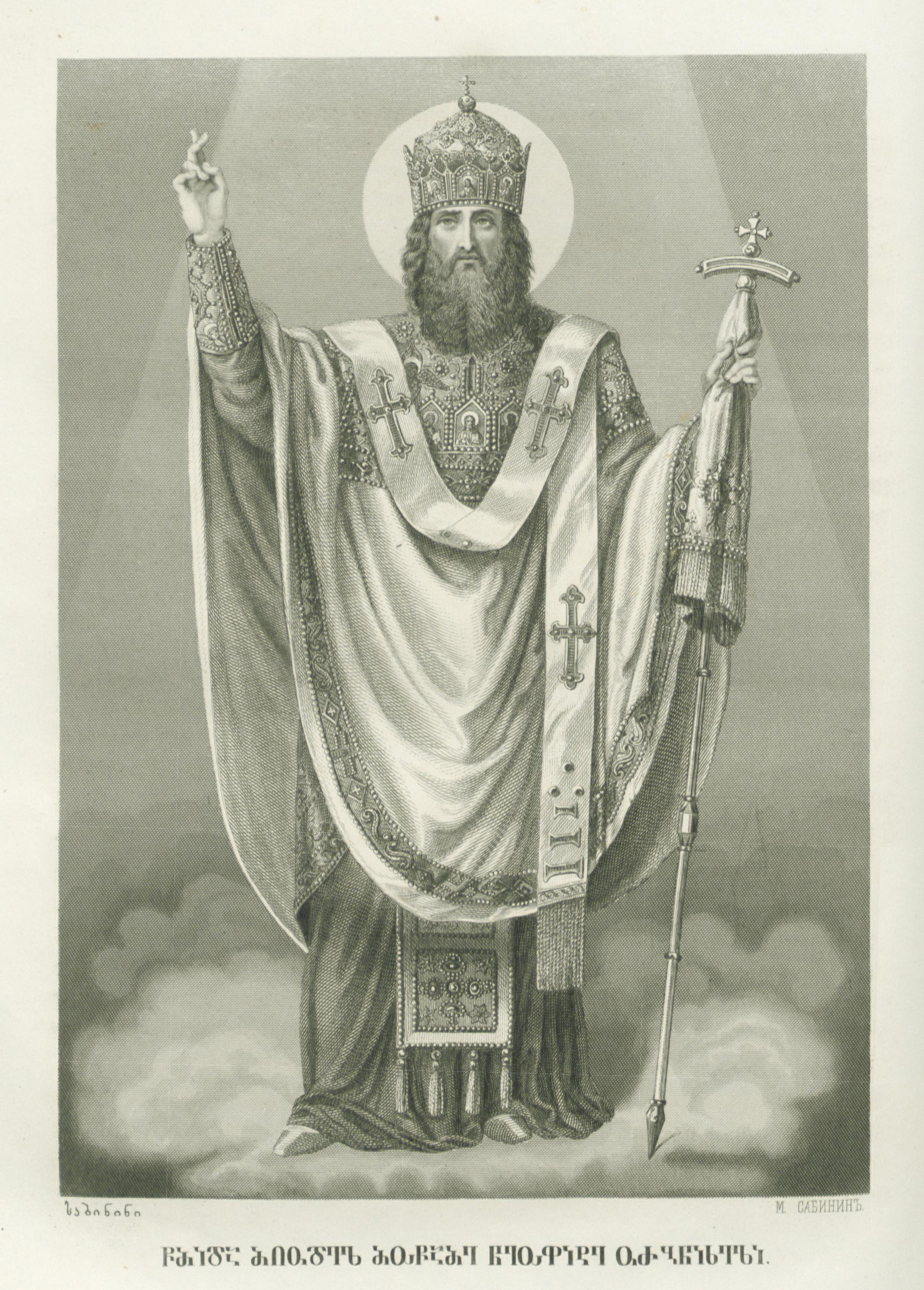 St. Neophite Urbneli (6th century)